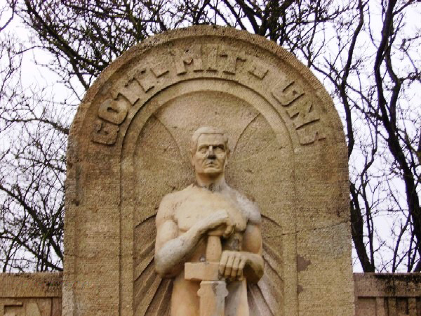 German sculpture in war cemetery in Champagne region